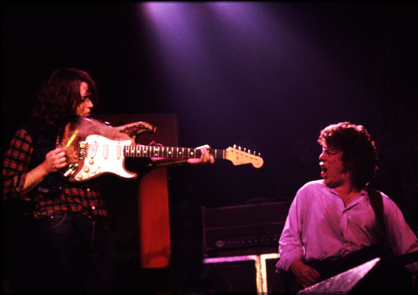 Rory Gallagher pointing his famous Fender Statocaster guitar at his life-long friend, and bassist Gerry McAvoy, at the National Stadium, in Dublin, Ireland, 1977. Photo: Eddie Mallin